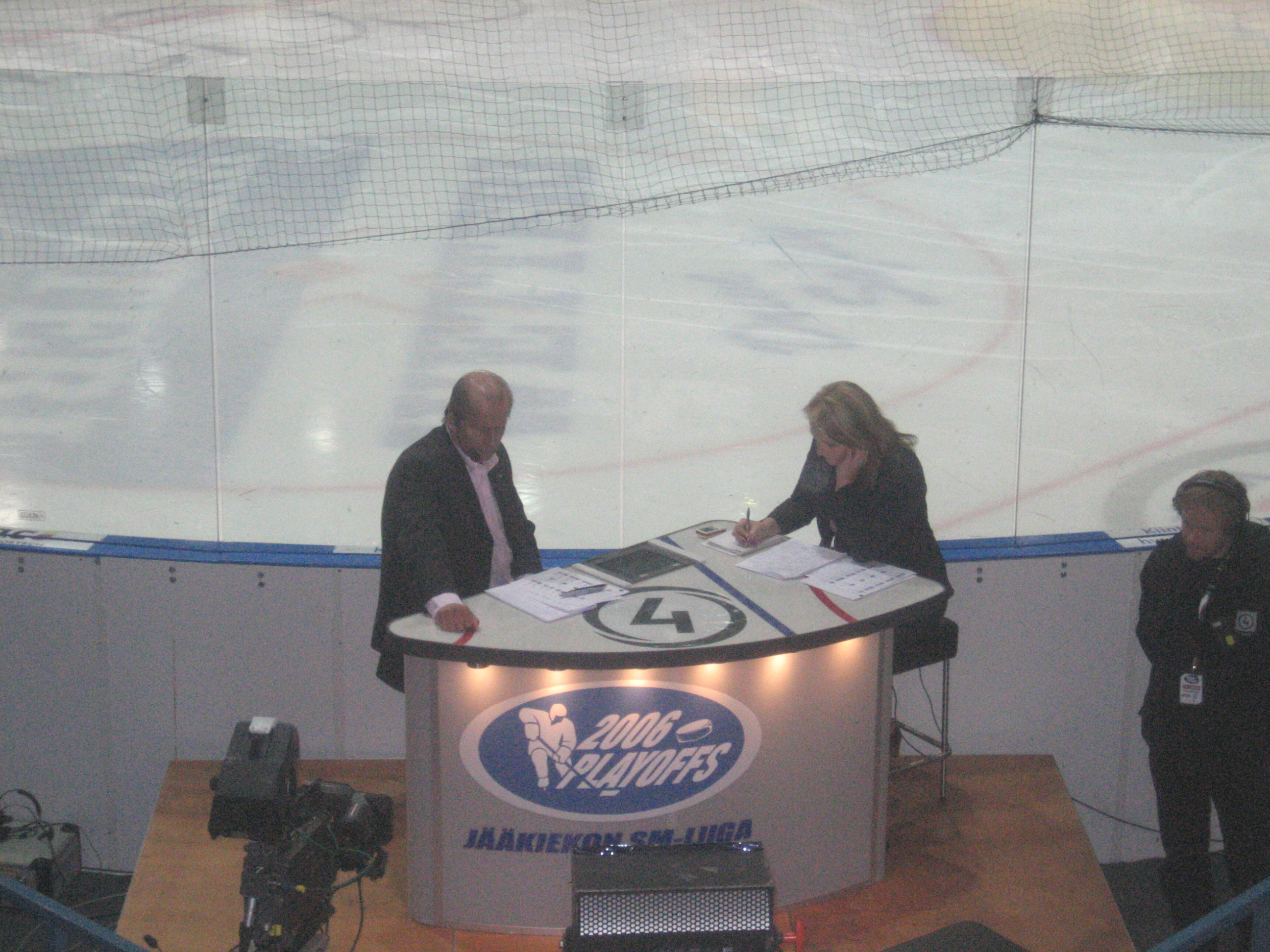 Hockey coach Juhani Tamminen works as an analyst for the Finnish channel 4 at the Kärpät vs. Ässät 3rd semifinal, in Oulu.